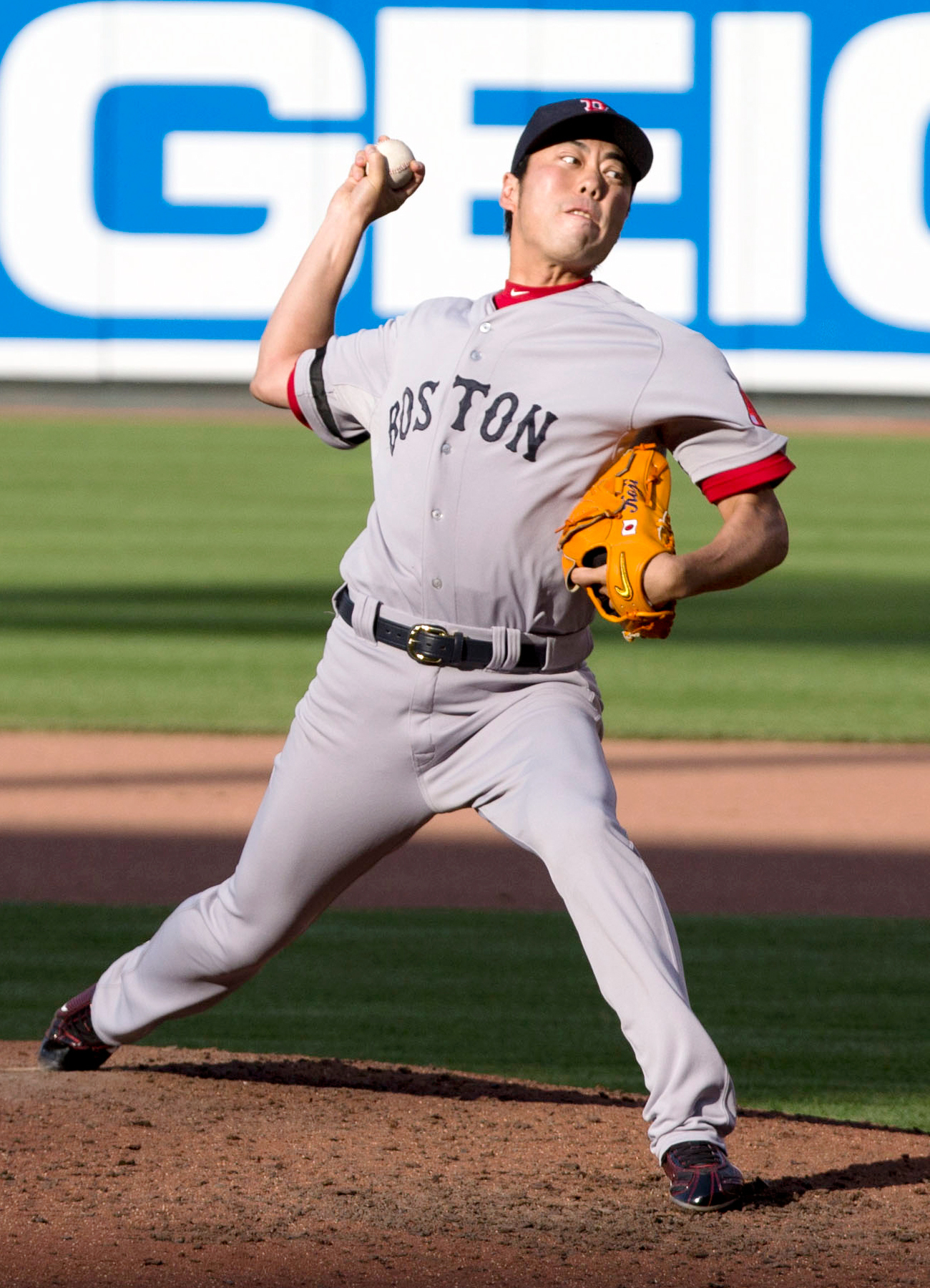 Boston Red Sox at Baltimore Orioles June 15, 2013